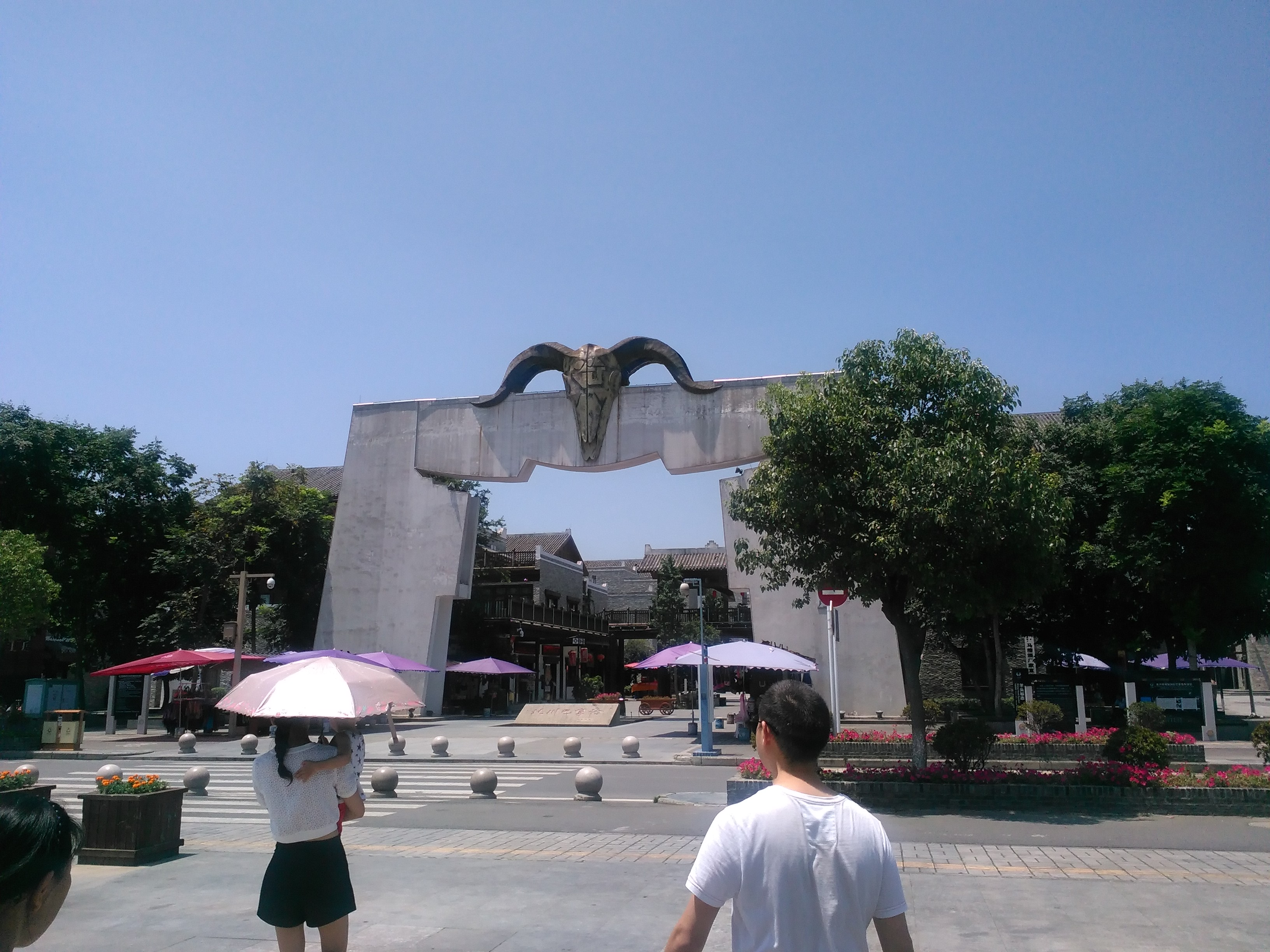 Beichuan city centre